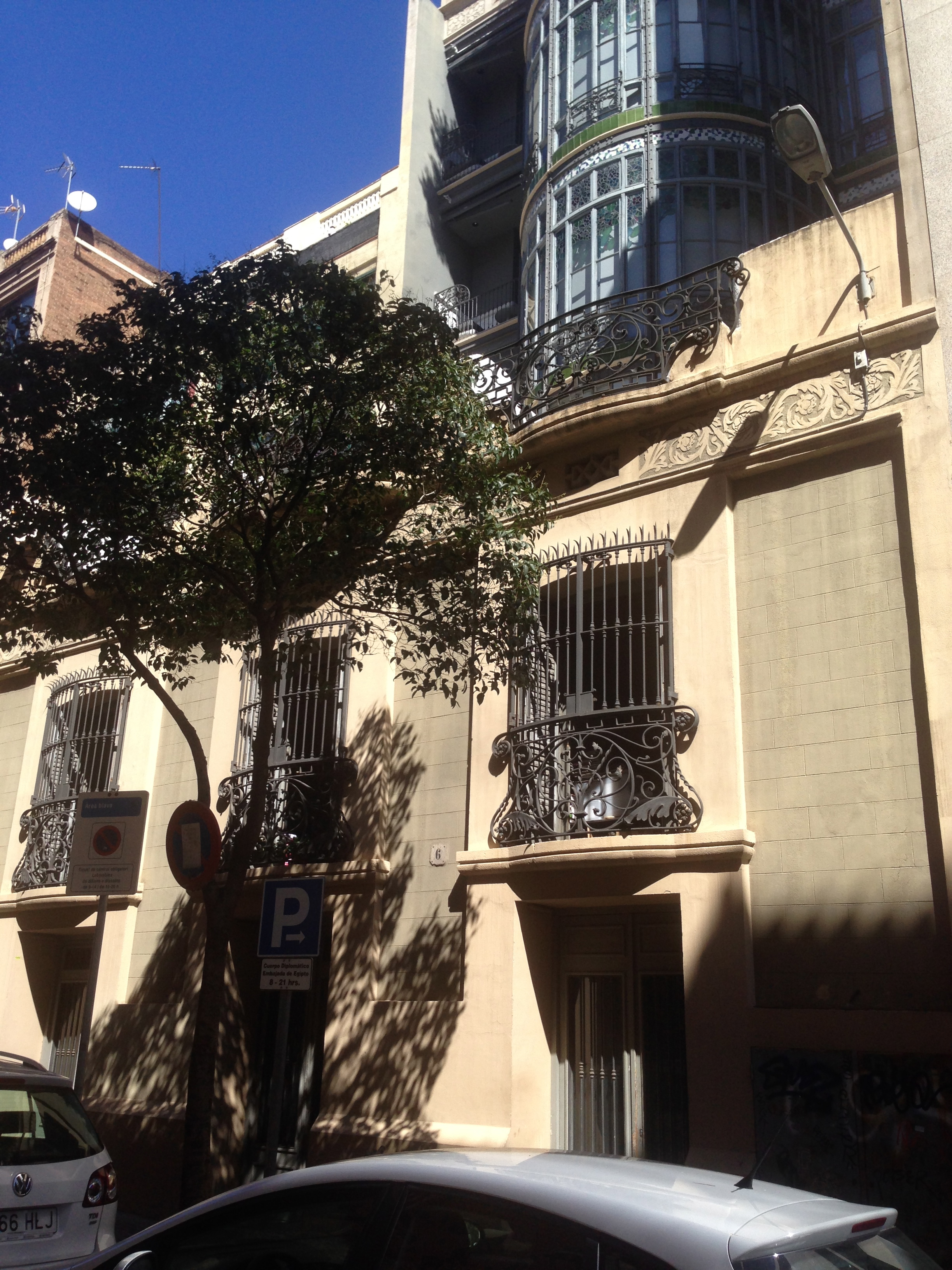 Back facade of Bonaventura Ferrer house